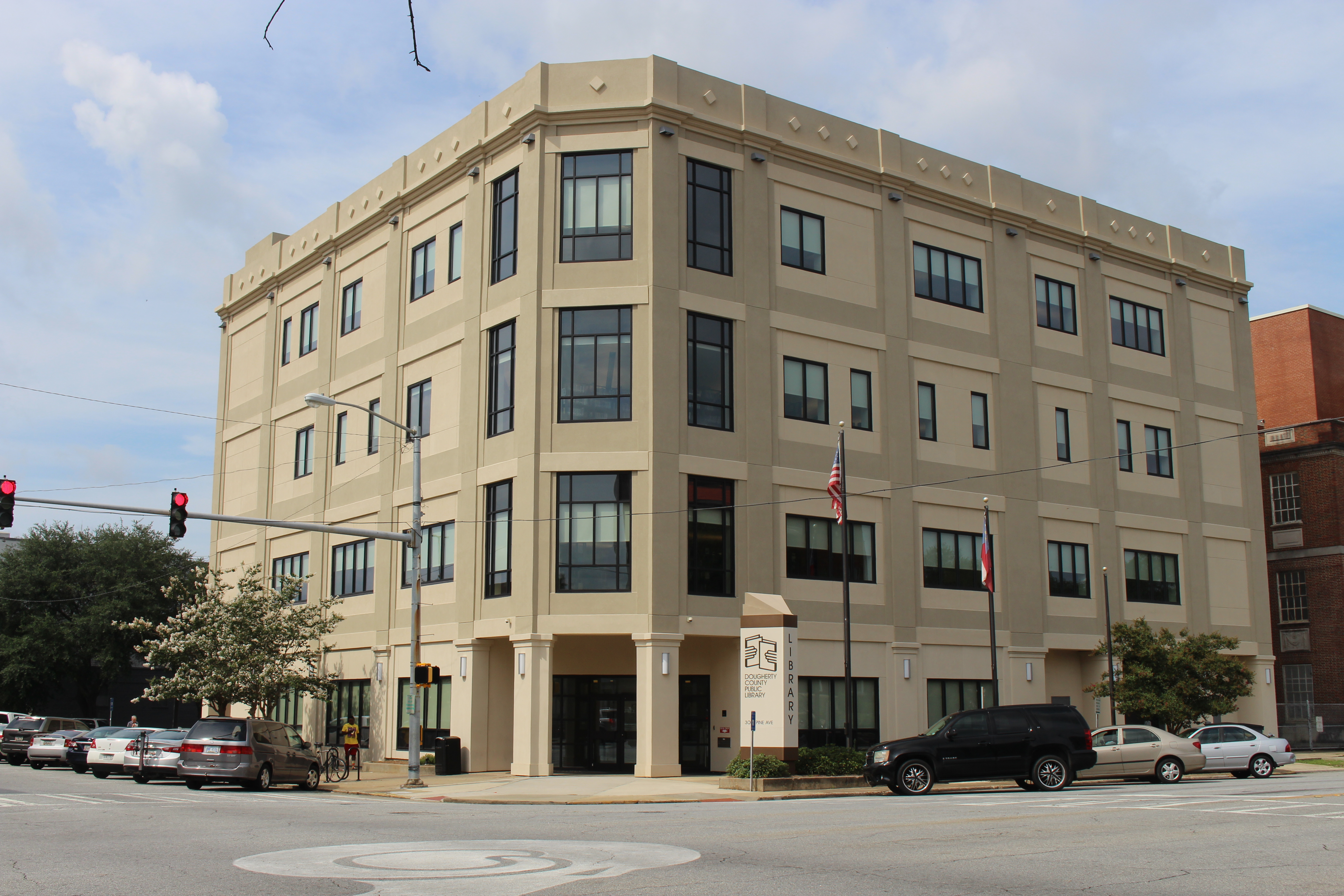 Central Library, 300 Pine Avenue, Albany, Dougherty County, Georgia